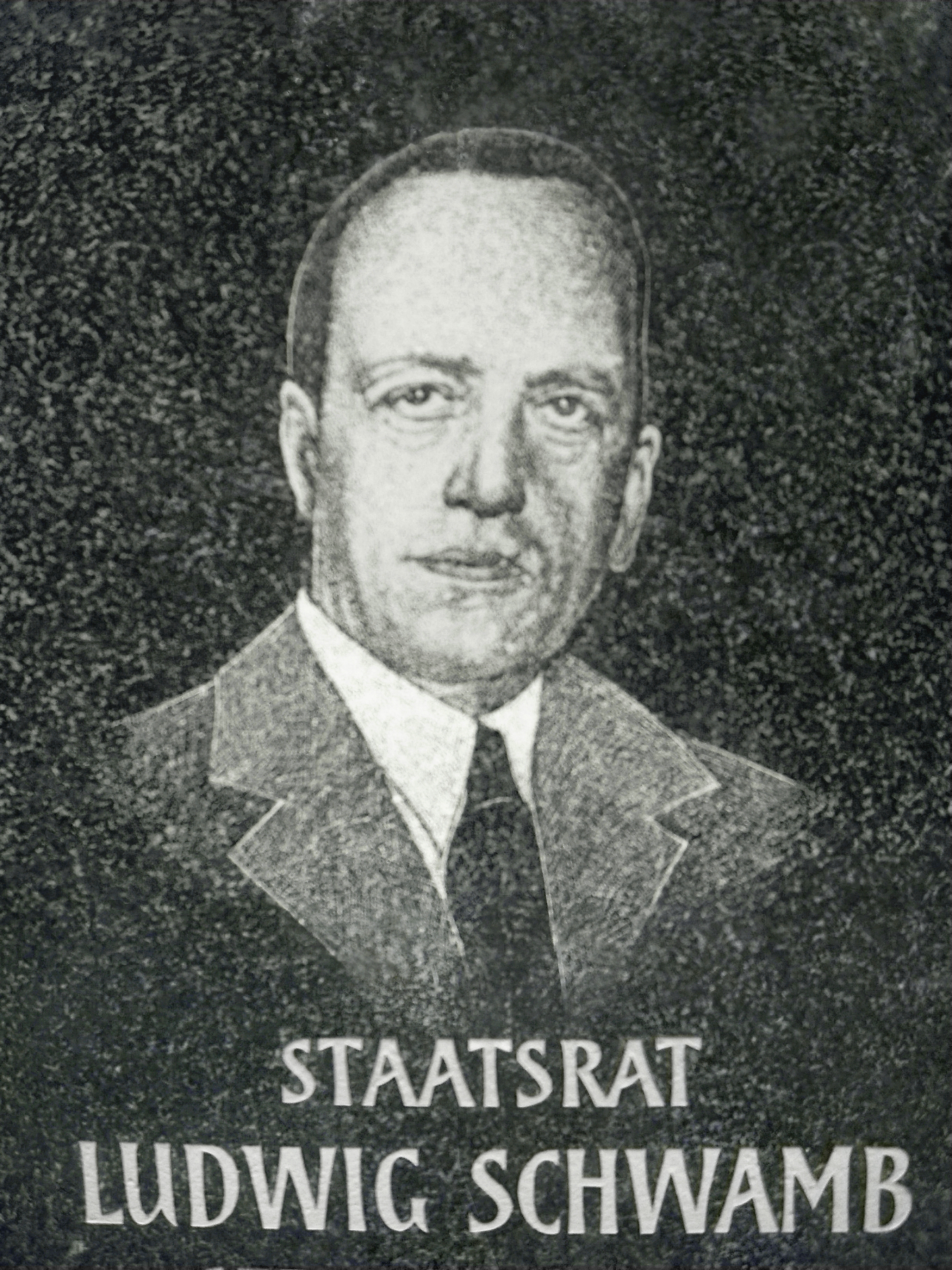 Ludwig Schwamb (* July 30, 1890 in Undenheim; † January 23, 1945 in Berlin-Plötzensee) was a lawyer, a social democratic politician and a close collaborator of Wilhelm Leuschner. Schwamb fought as a christian motivated member of the "Kreisau Circle" against the National Socialist dictatorship and was involved in the failed coup attempt on 20 July 1944.